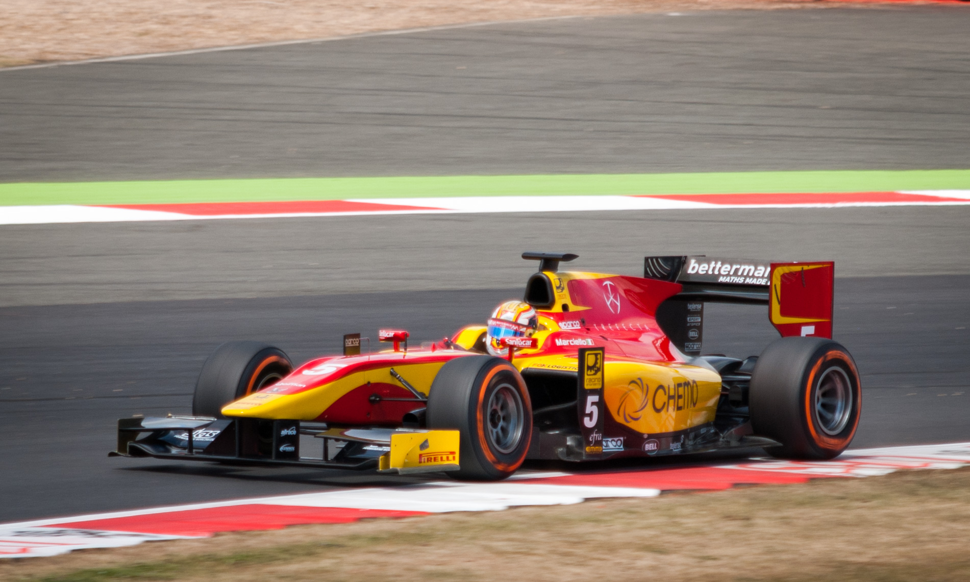 Raffaele Marciello driving for Racing Engineering at Silverstone. Round 5 of the 2014 GP2 Series Championship.